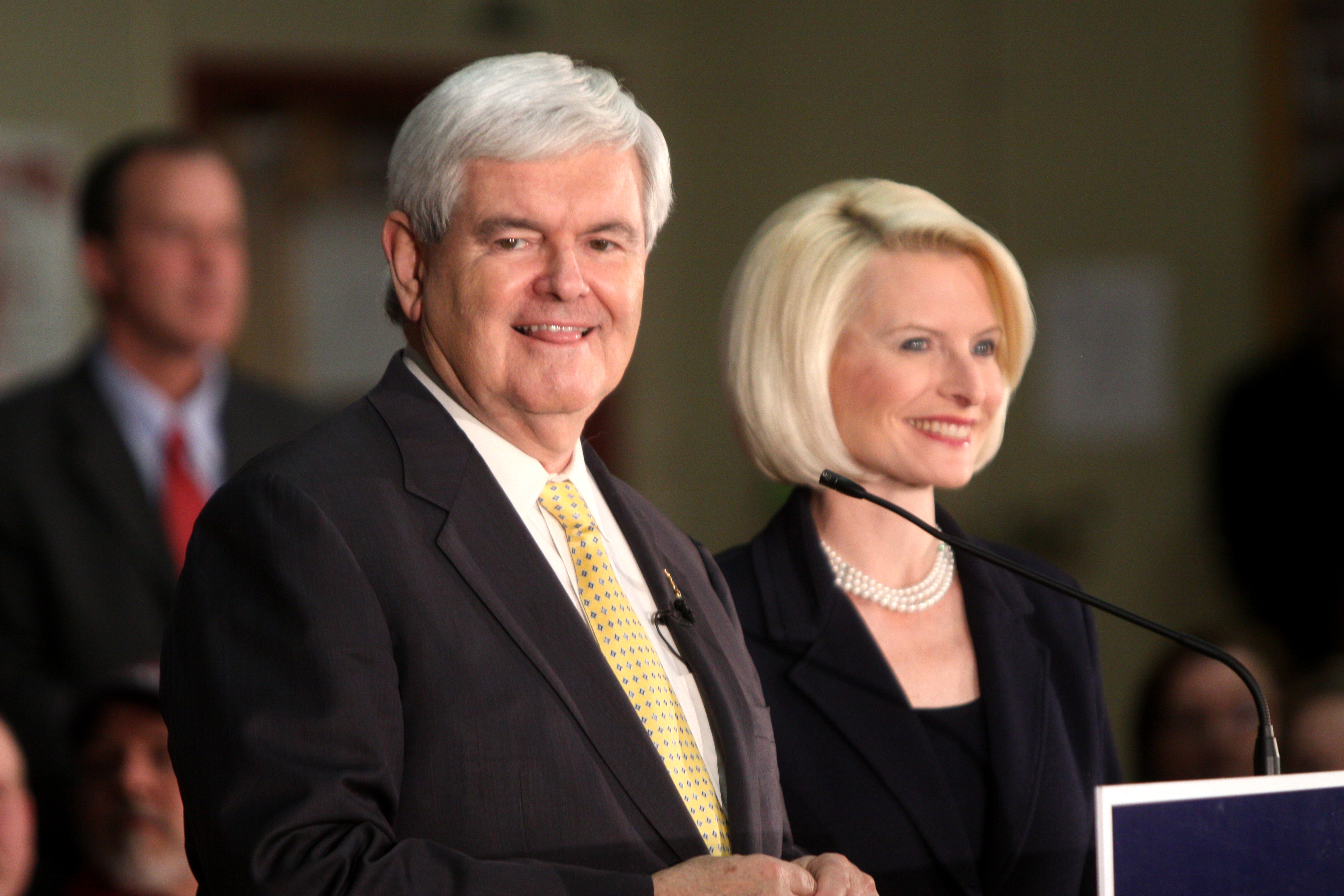 Newt Gingrich speaking to supporters at a townhall in Derry, New Hampshire, along with his wife, Callista.